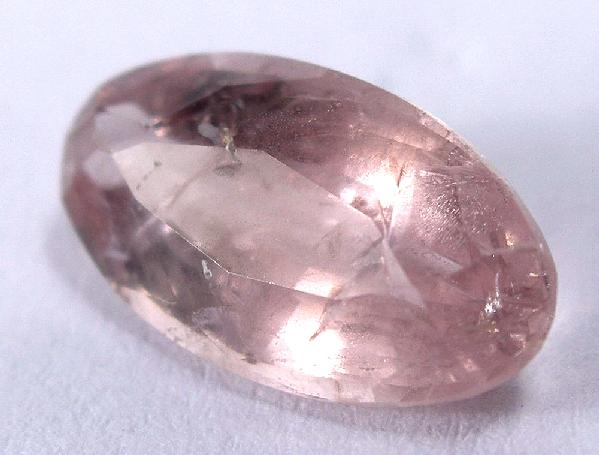 Zektzerite Locality: Washington Pass, Golden Horn Batholith, Okanogan County, Washington, USA (Locality at ) Size: thumbnail, 11.1 x 6 mm , 1.62 carats Zektzerite A very rare, fine, gem cut from type locality material collected at Washington Pass sometime after the original find. It is one of the finest cut stones, surely - certainly the best tha tany of my contacts have seen. it is a large, very nicely colored, pink/lavender oval zektzerite that is 1.62 carats and 11.1 x 6 mm size. i obtained a small stash collected about 12 years ago from a private collector. the best of his crystals have more color than any i have seen in the past which came from the famous find by Jack Zektzer. Only one was really a cutter , and it turned out well.